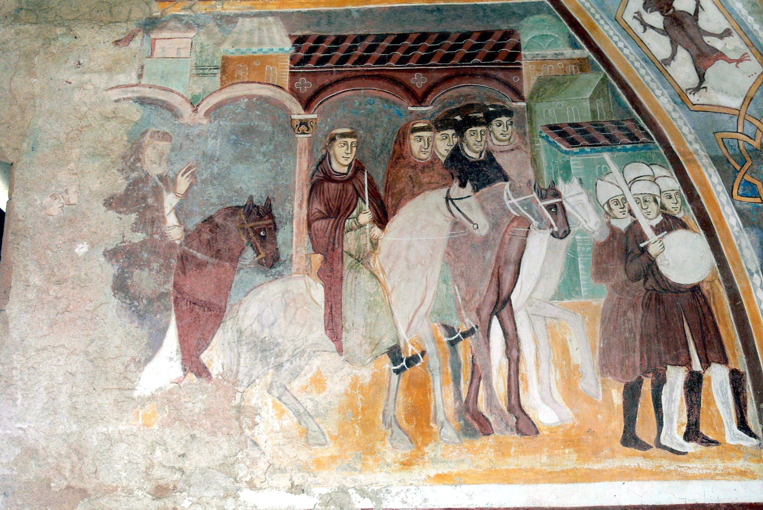 Angera castle ( Varese ). Hall of Justice - Fresco showing Ottone Visconti, archbishop of Milan, returning to Milan in 1277.